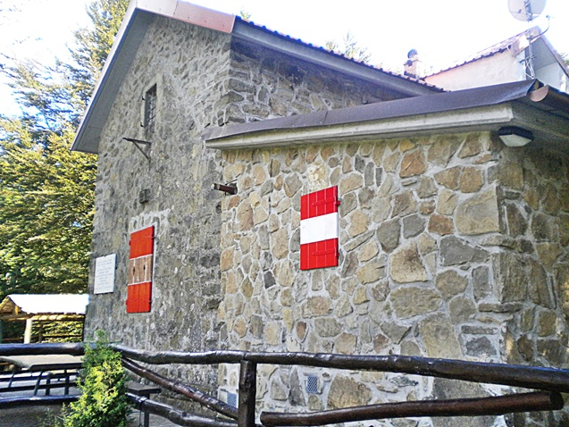 chalet